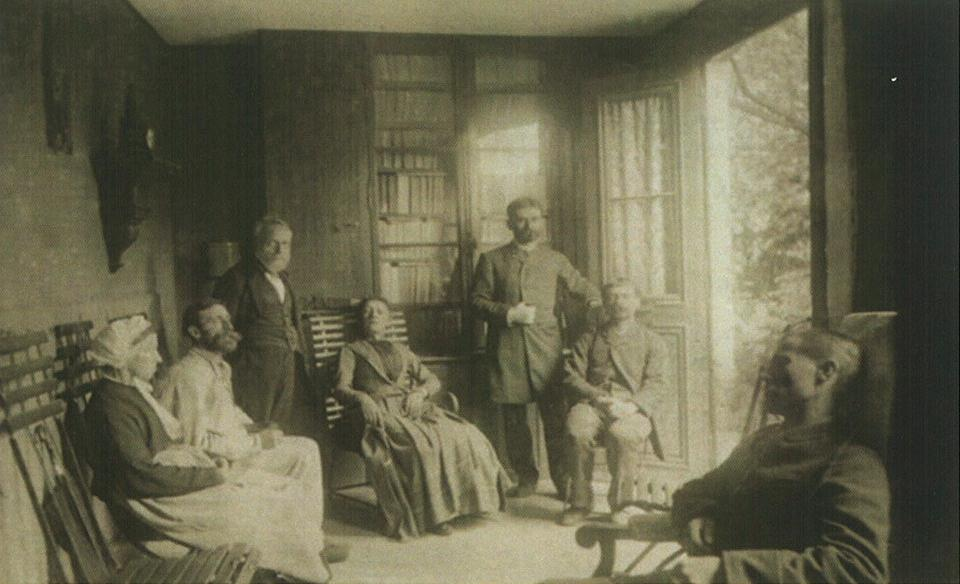 Doctor Auguste Liébeault, standing (left) in his clinique in Nancy in 1873.